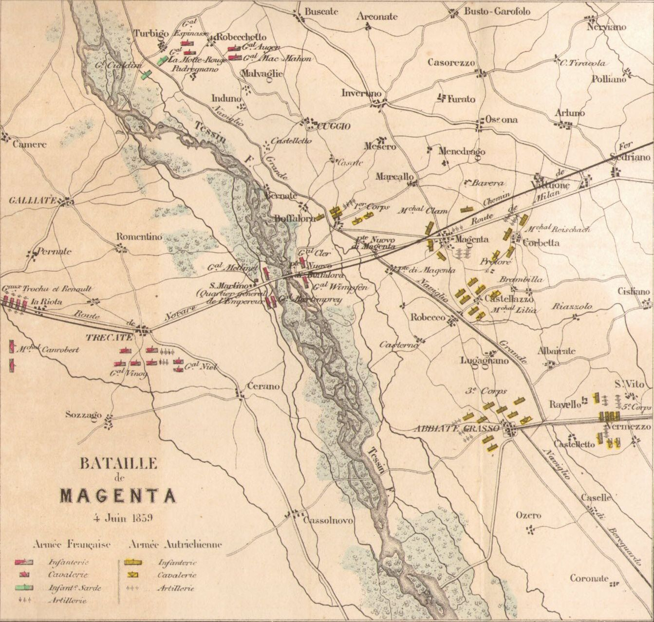 Map of battle of Magenta (1859.06.04)